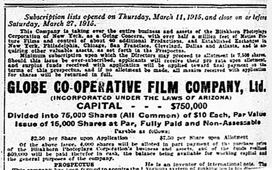 An excerpt of a newspaper advertisement for the Globe Co-operative Film Company, Ltd, taken from the Chicago Tribune. (Chicago, Illinois) March 14, 1915